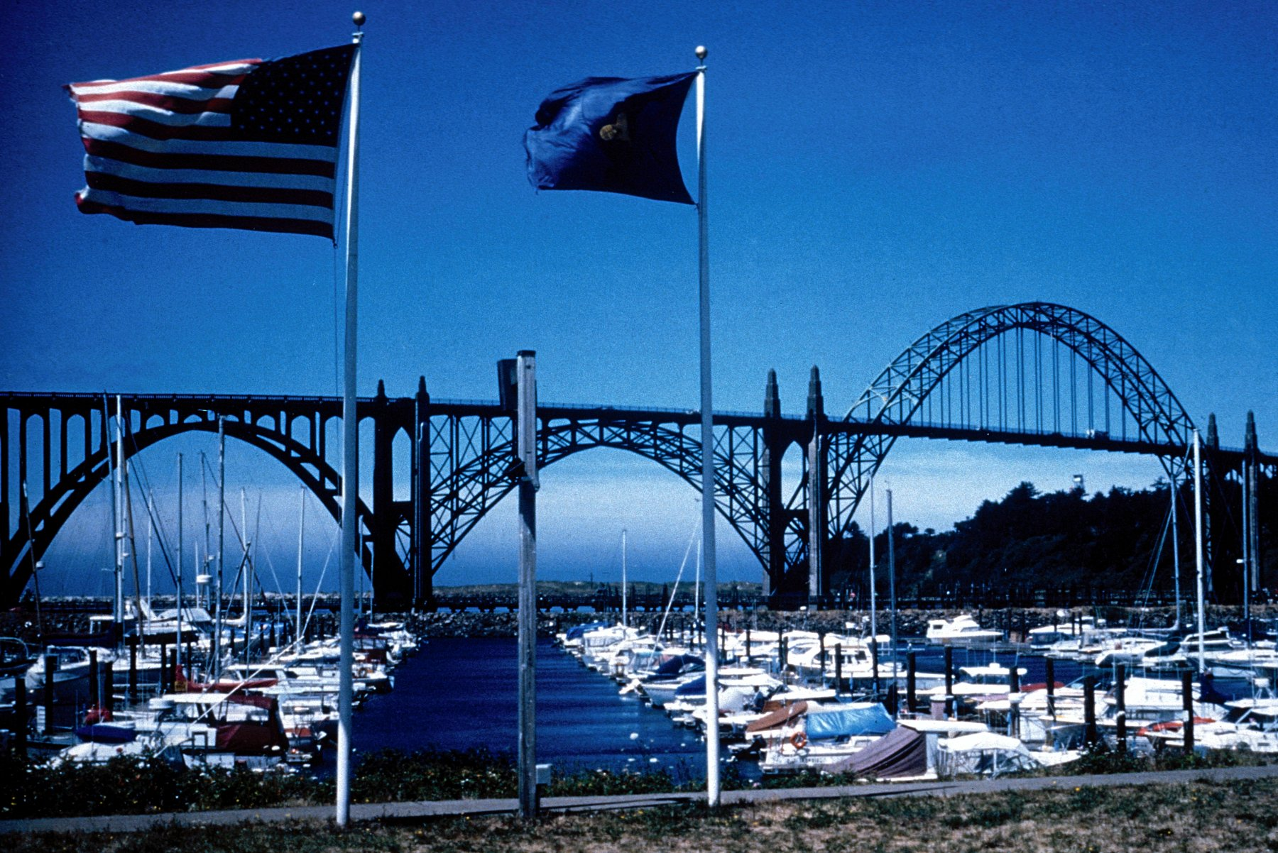 Waterfront of Newport, Oregon with the Yaquina Bay Bridge in the background